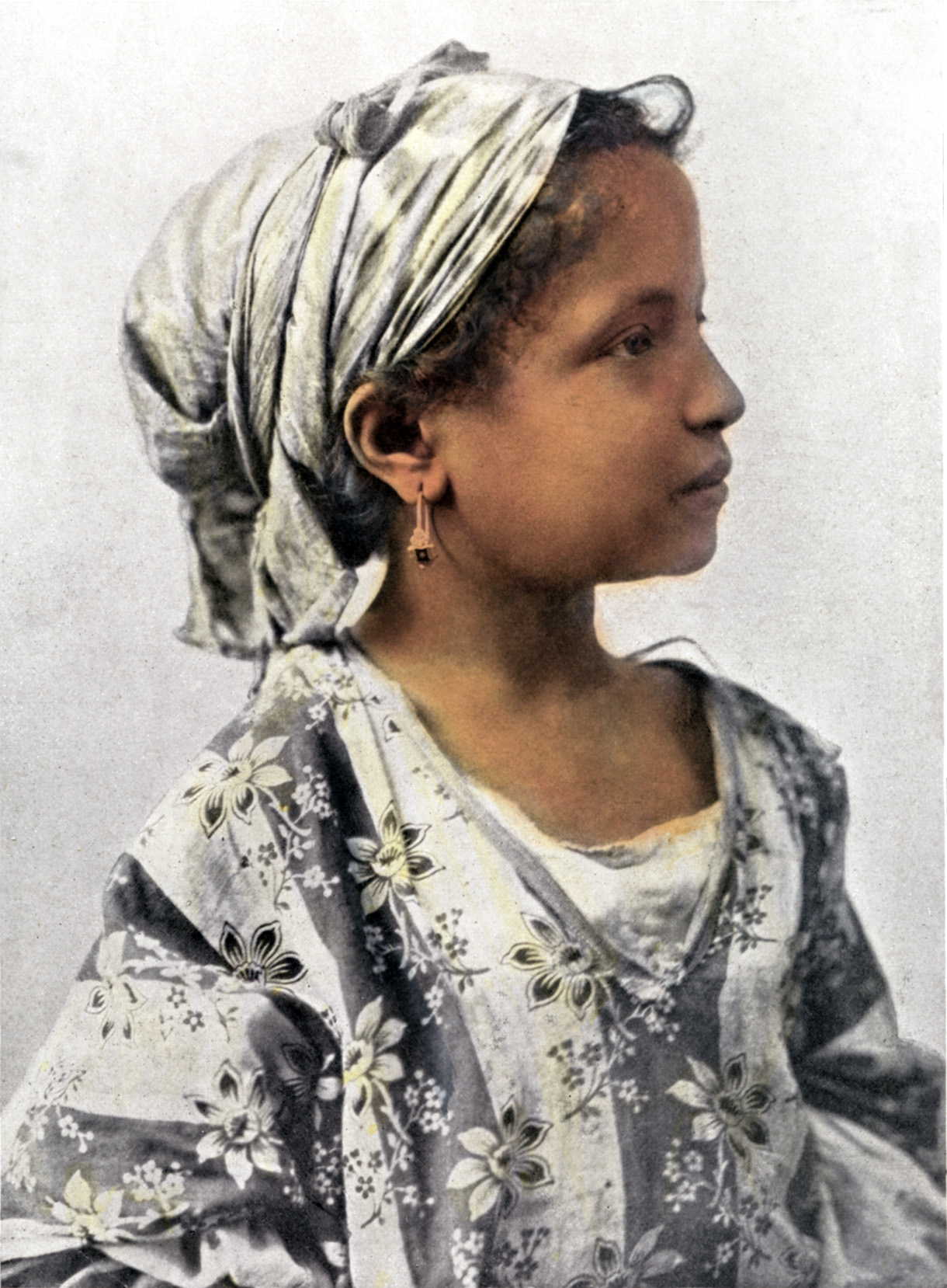 Young Kabyle Girl of Bou Saâda, in southern Algeria.